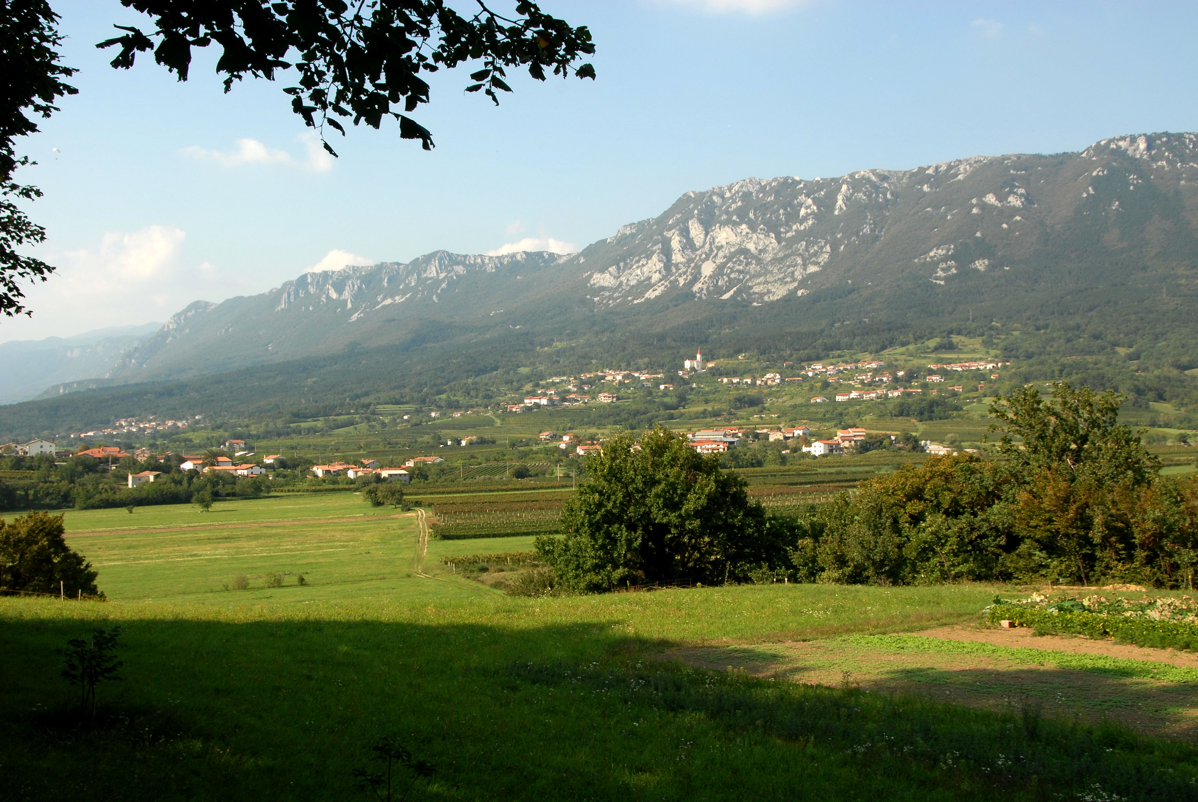 View from the castle in Zemono at the mountain range “Gora” in the background and the villages Budanje and Duplje in the foreground, surrounded by vineyards, Vipavska Dolina, Goriska, Slovenia